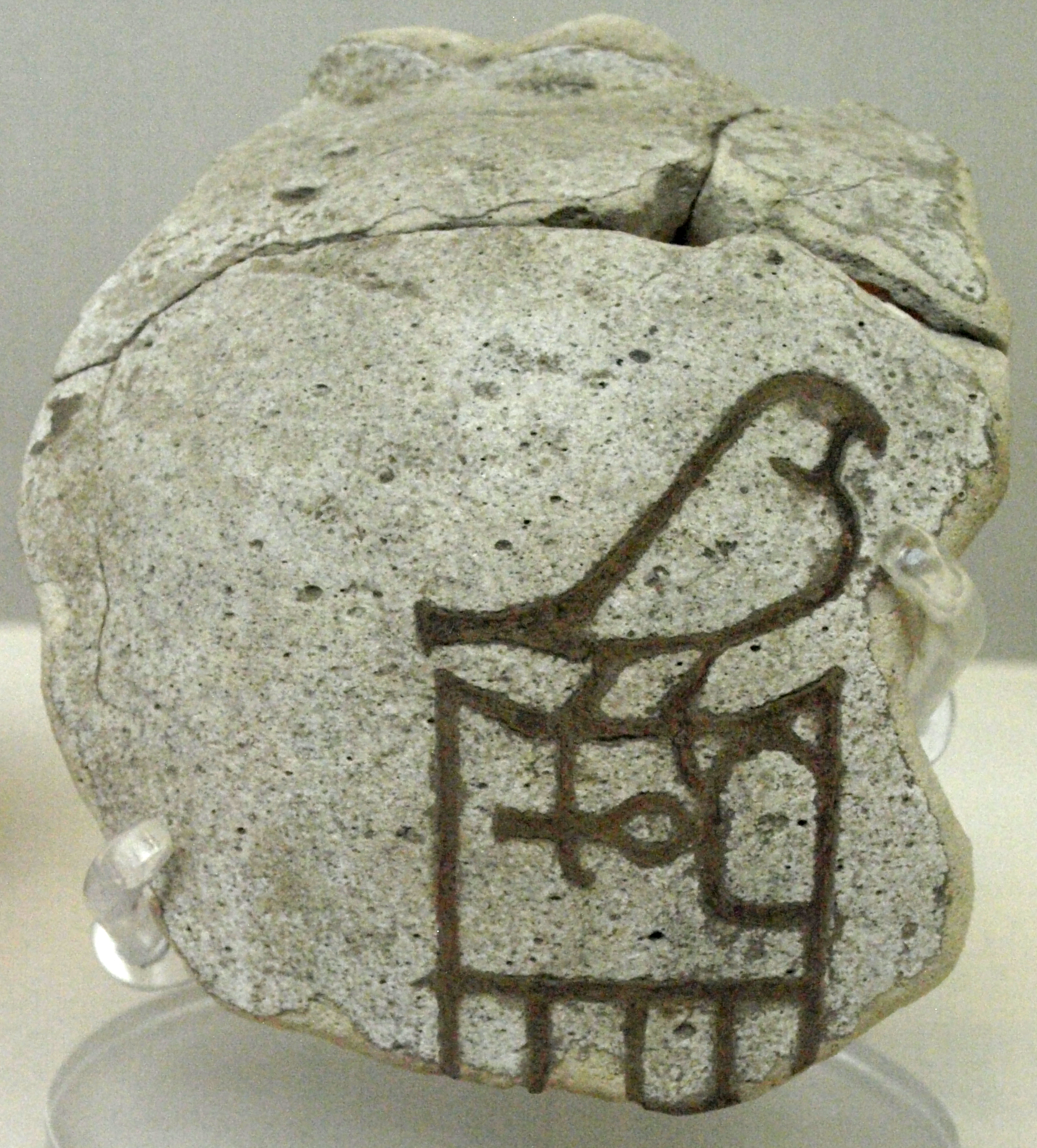 Glazed fragment of a fiance vessel bearing the name of the pharaoh Aha, early 1st dynasty, circa 3000 BC. Found at the temple of Osiris at Abydos. EA 38010.